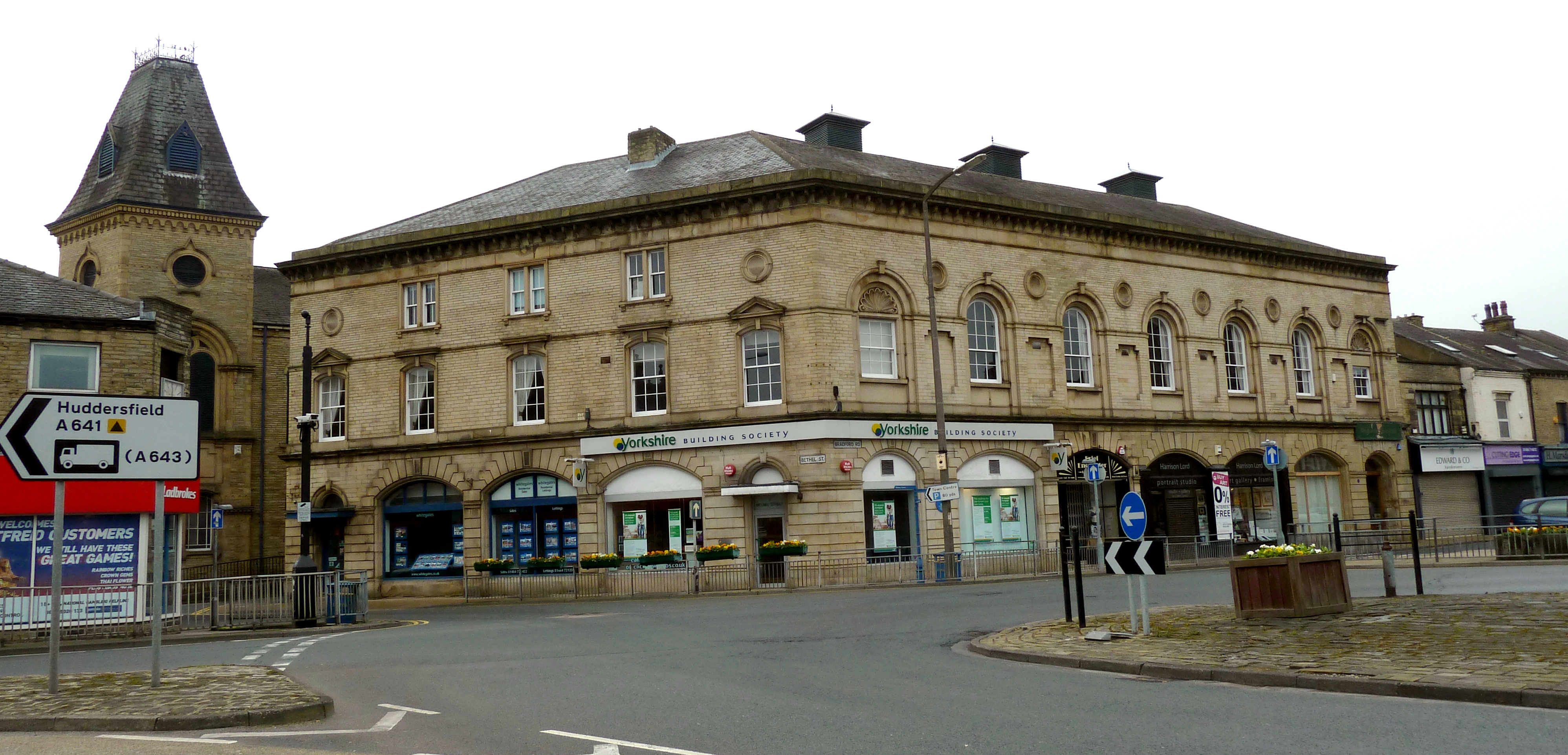 The Civic Hall on the corner of Bradford Road and Bethel Street, Brighouse, West Yorkshire, England. Designed by Mallinson and Barber in 1866. It was originally designed as the Town Hall and municipal offices.